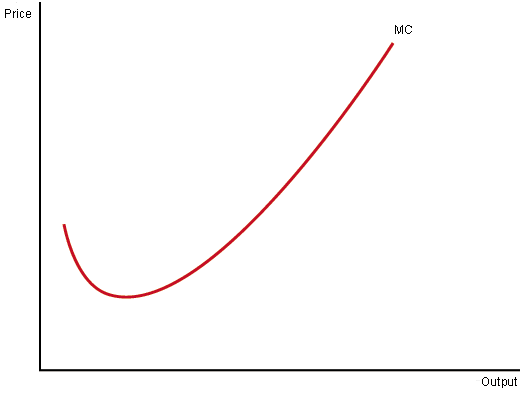 A typical marginal cost curve.